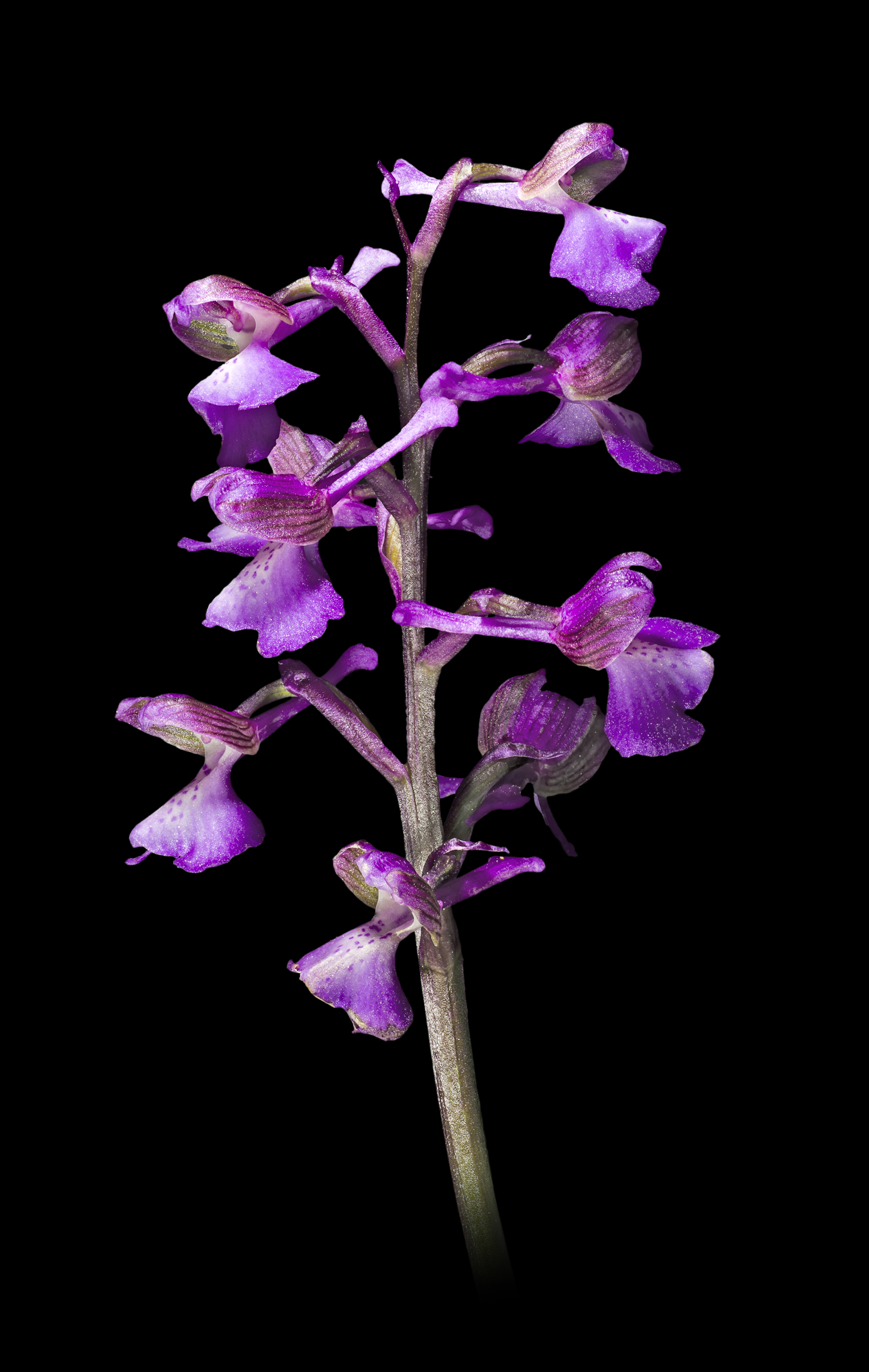 Green-winged Orchid, inflorescence. Locality : Fronton, Haute-Garonne France